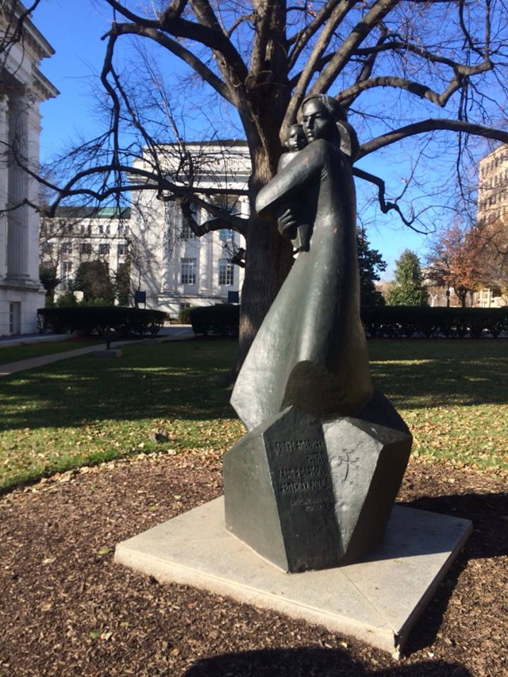 Mother Earth, Armenia, Scalptor Frid Soghoyan